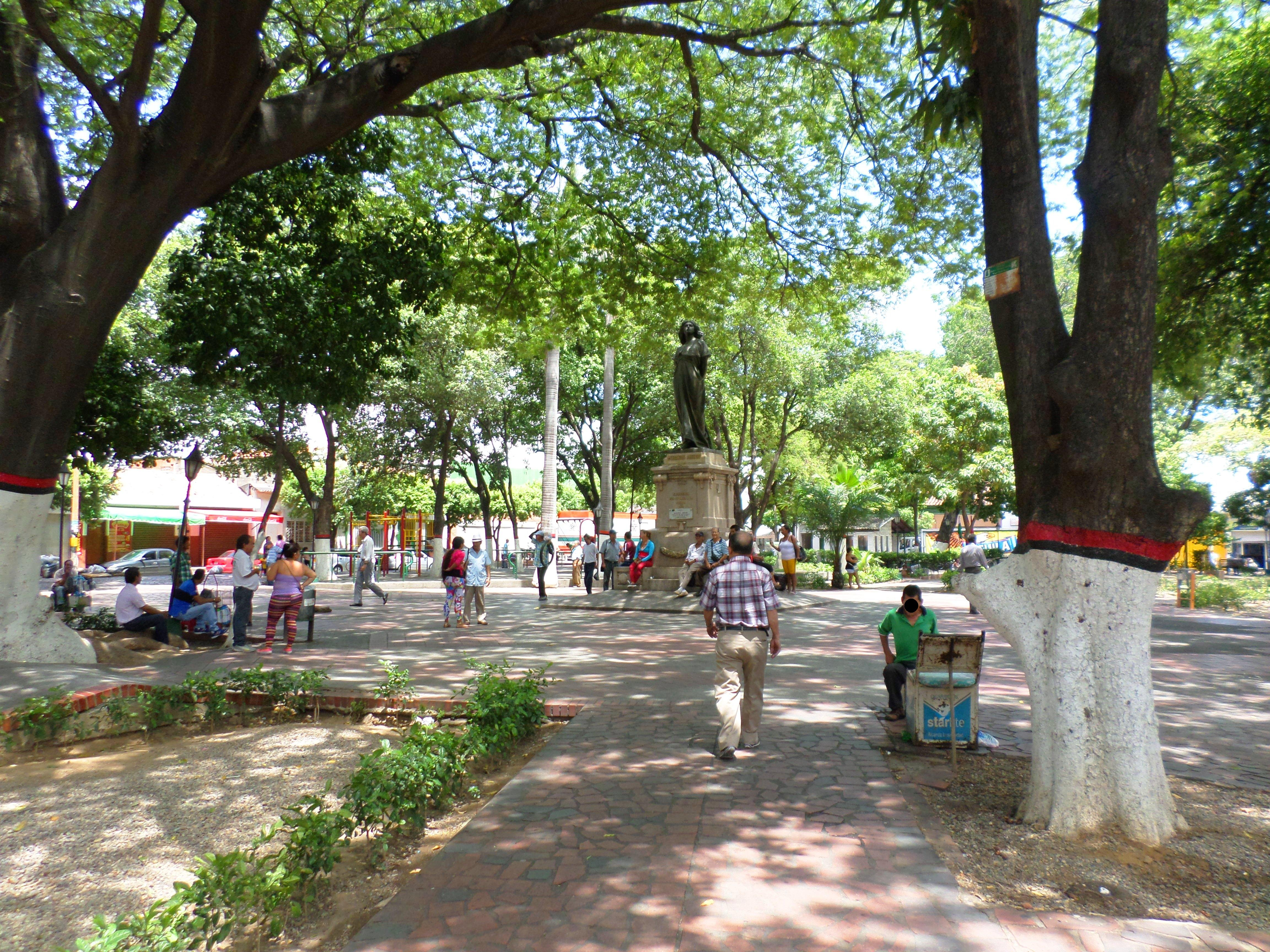 Mercedes Abrego park, Cúcuta-Colombia